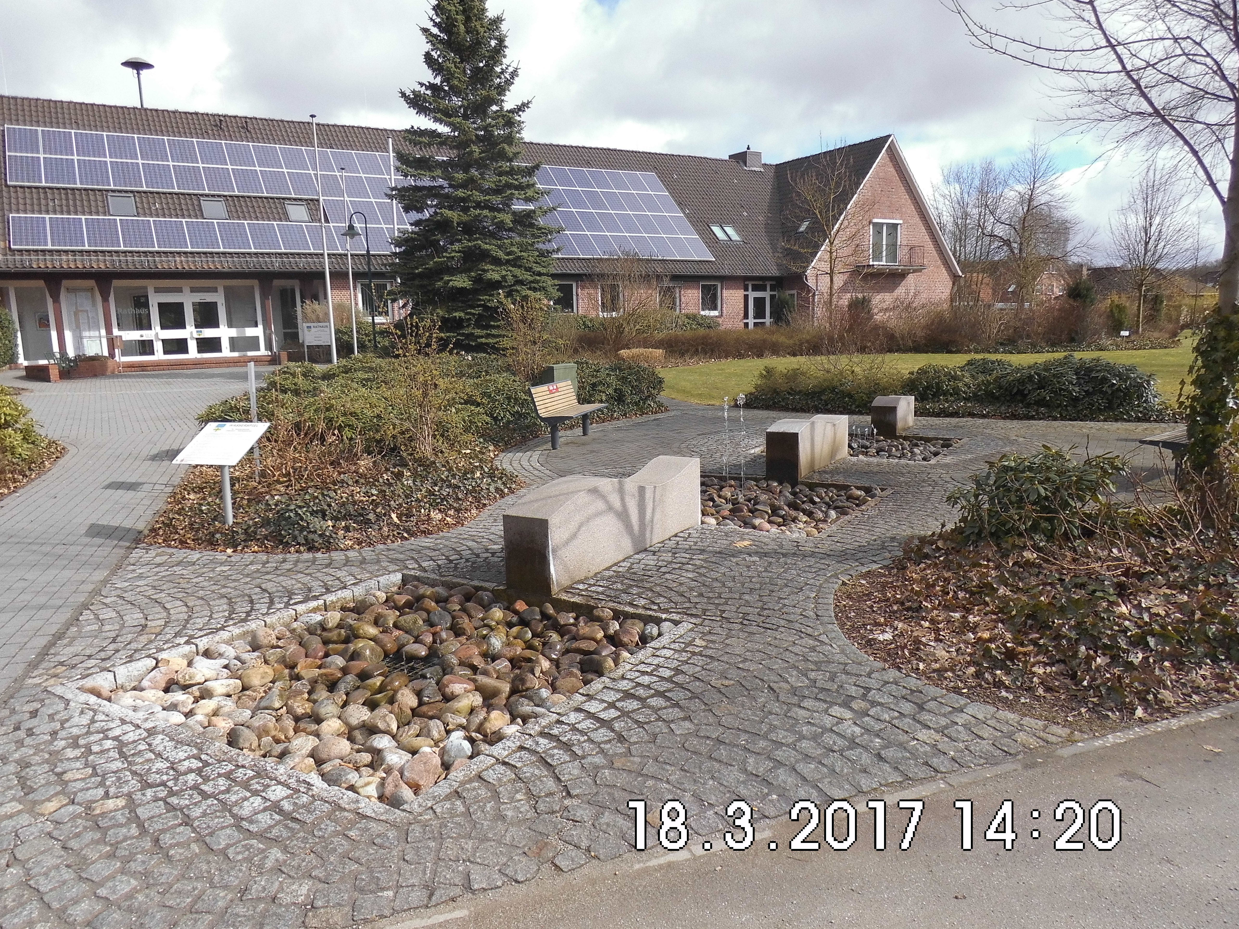 Fountain Wasserspiel in front of the Himmelpforten town hall